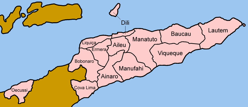 Map of the districts of East Timor, with ISO standard names. Made by User:Golbez.